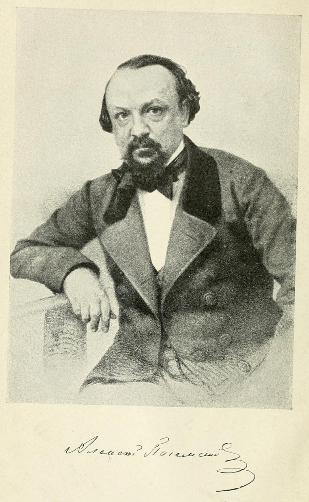 Russian writer Aleksey Pisemsky